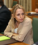 Tina Birbili, Minister for the Environment, Energy and Climate Change Cropped from a picture originally posted to Flickr as Πρώτη συνεδρίαση Υπουργικού Συμβουλίου